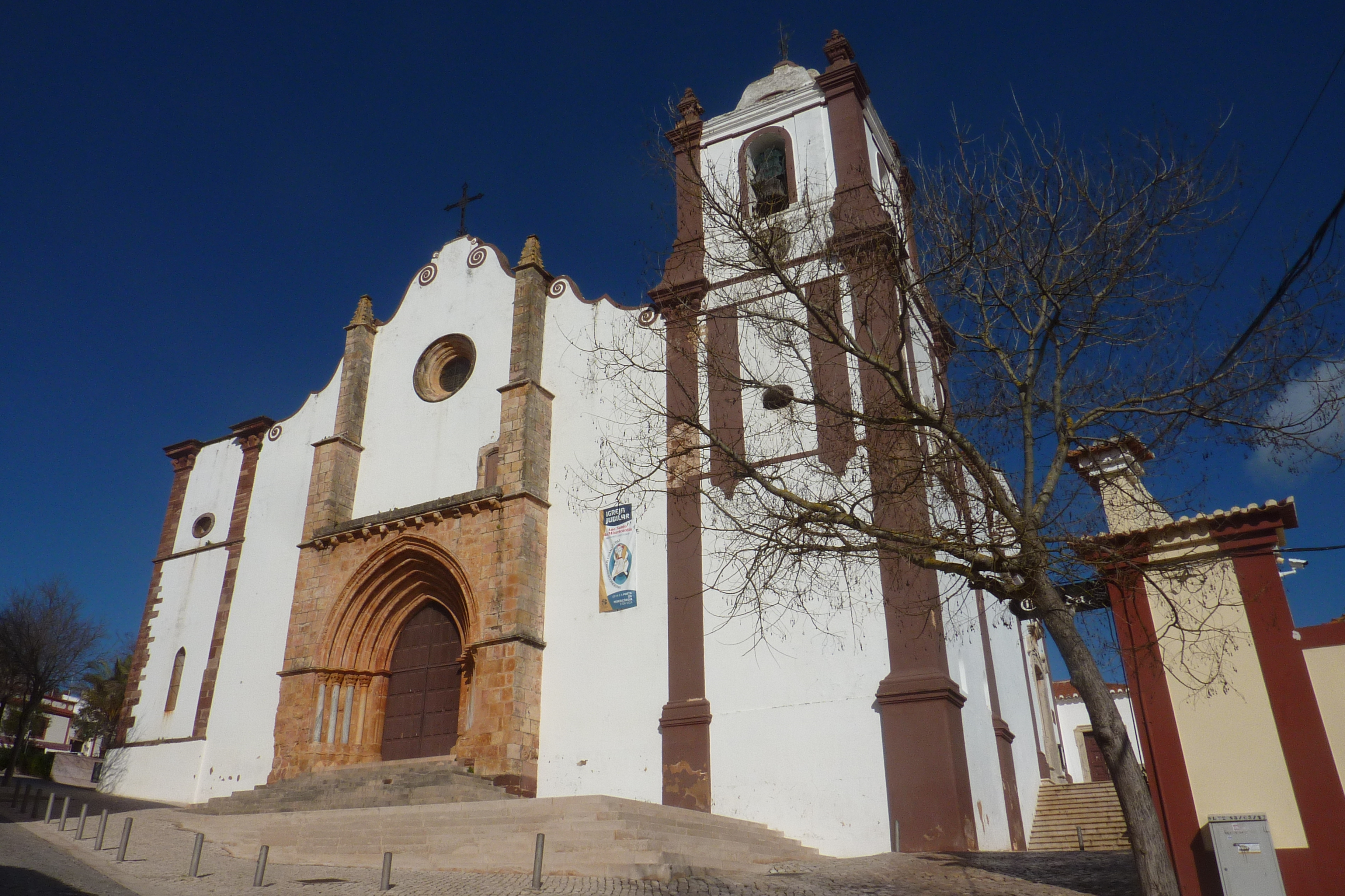 Algarve - Silves - church